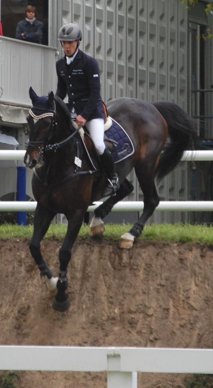 German rider Gilbert Tillmann with Hello Max at the German show jumping derby, Hamburg 2013